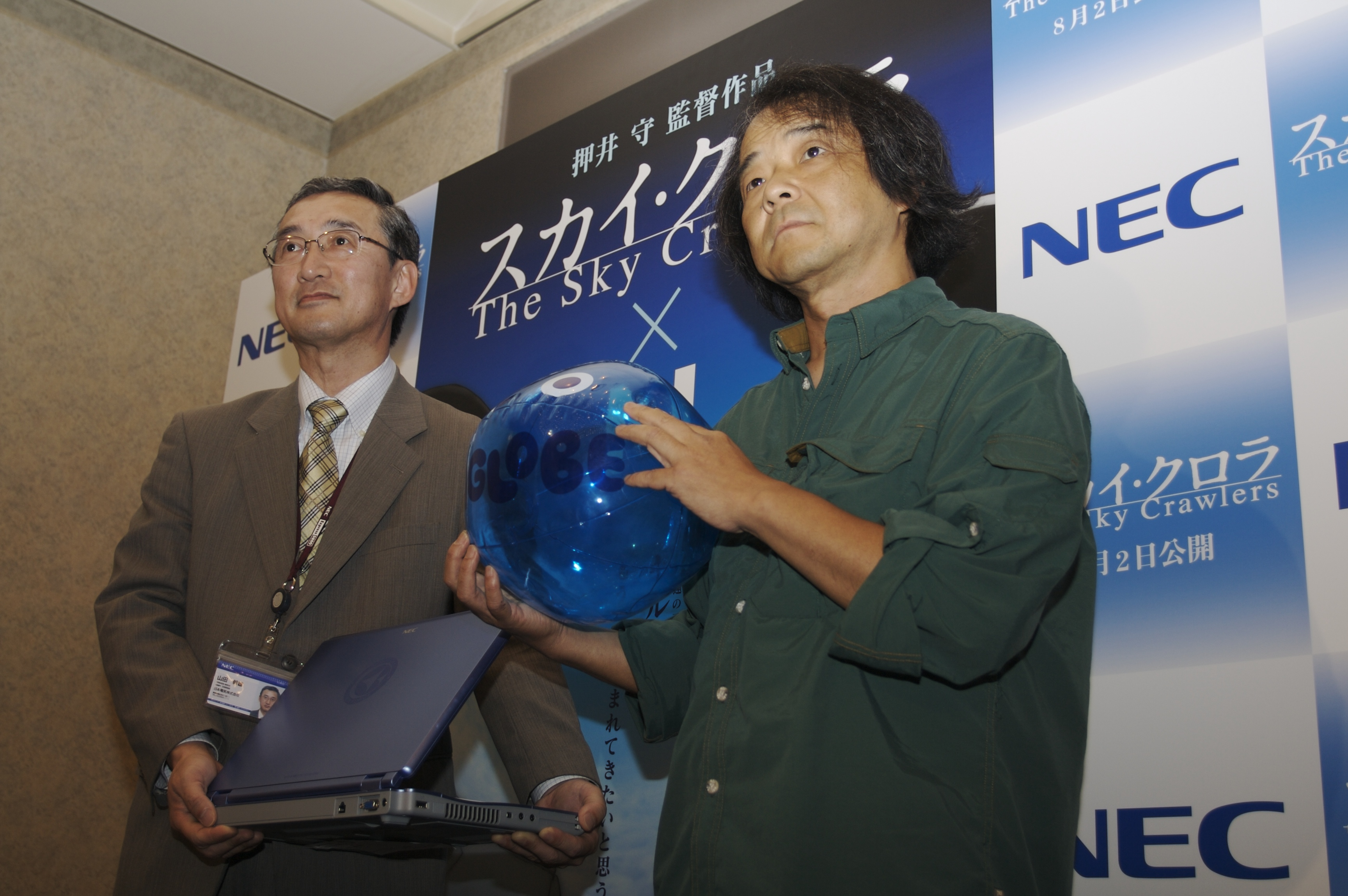 Mamoru Oshii promotes NEC Sky Crawlers